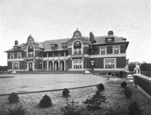 Idle Hour, the William K. Vanderbilt estate in Oakdale, Long Island, New York. This first mansion was designed by Richard Morris Hunt under the direction of Alva Vanderbilt. It burned in 1899. It was replaced by this new fireproof mansion in 1901, designed by the firm of Hunt's sons. It is part of Dowling College today.